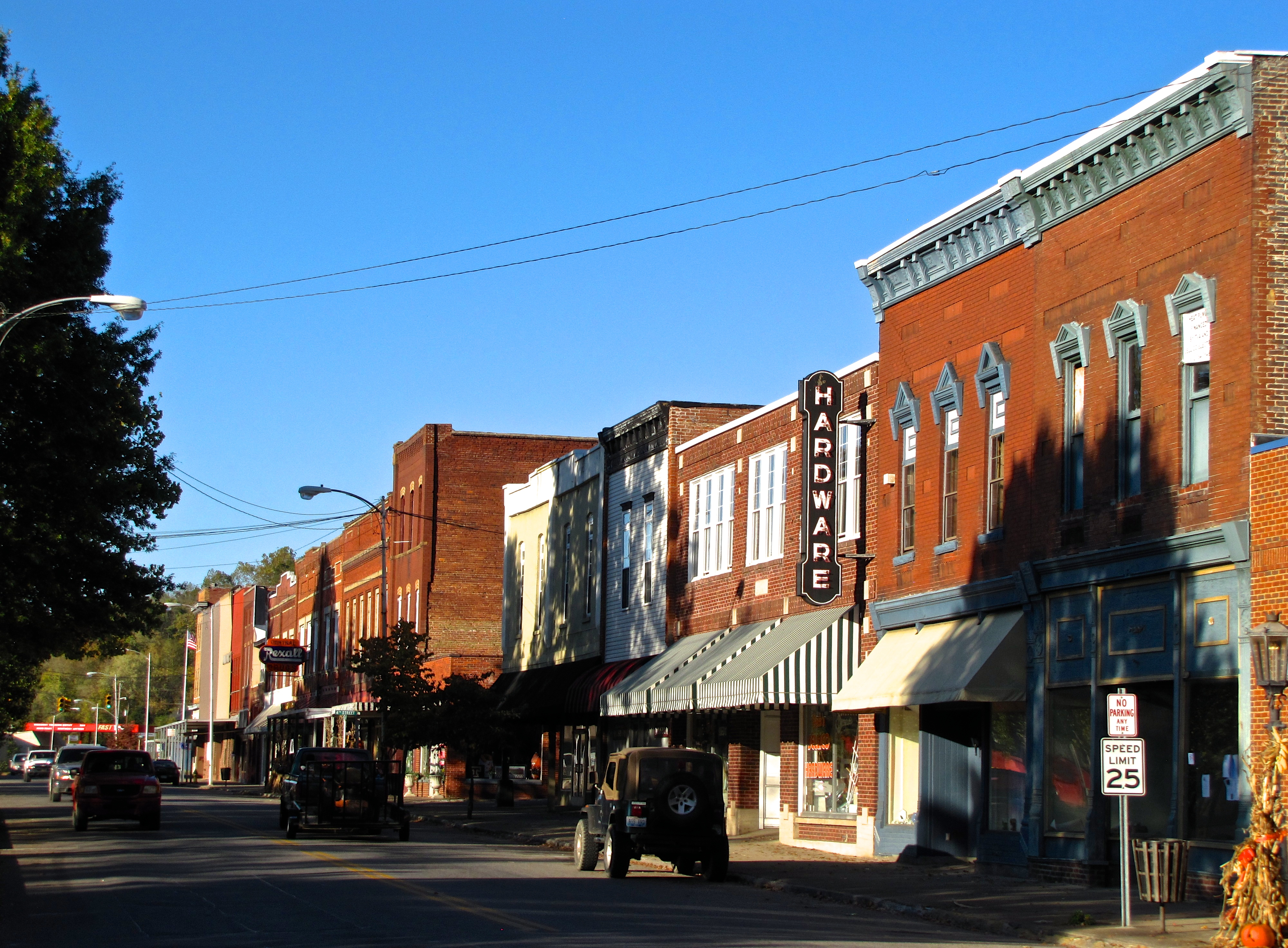 Buildings along North Main Street in Jellico, Tennessee, United States.